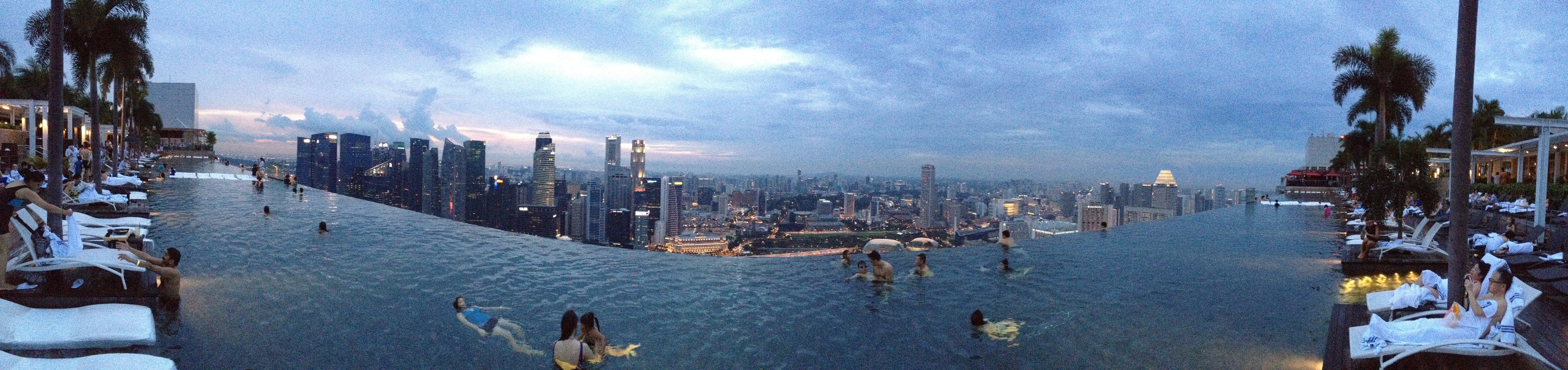 The Infinity edge swimming pool in the Skypark at Marina_Bay_Sands located in Singapore.